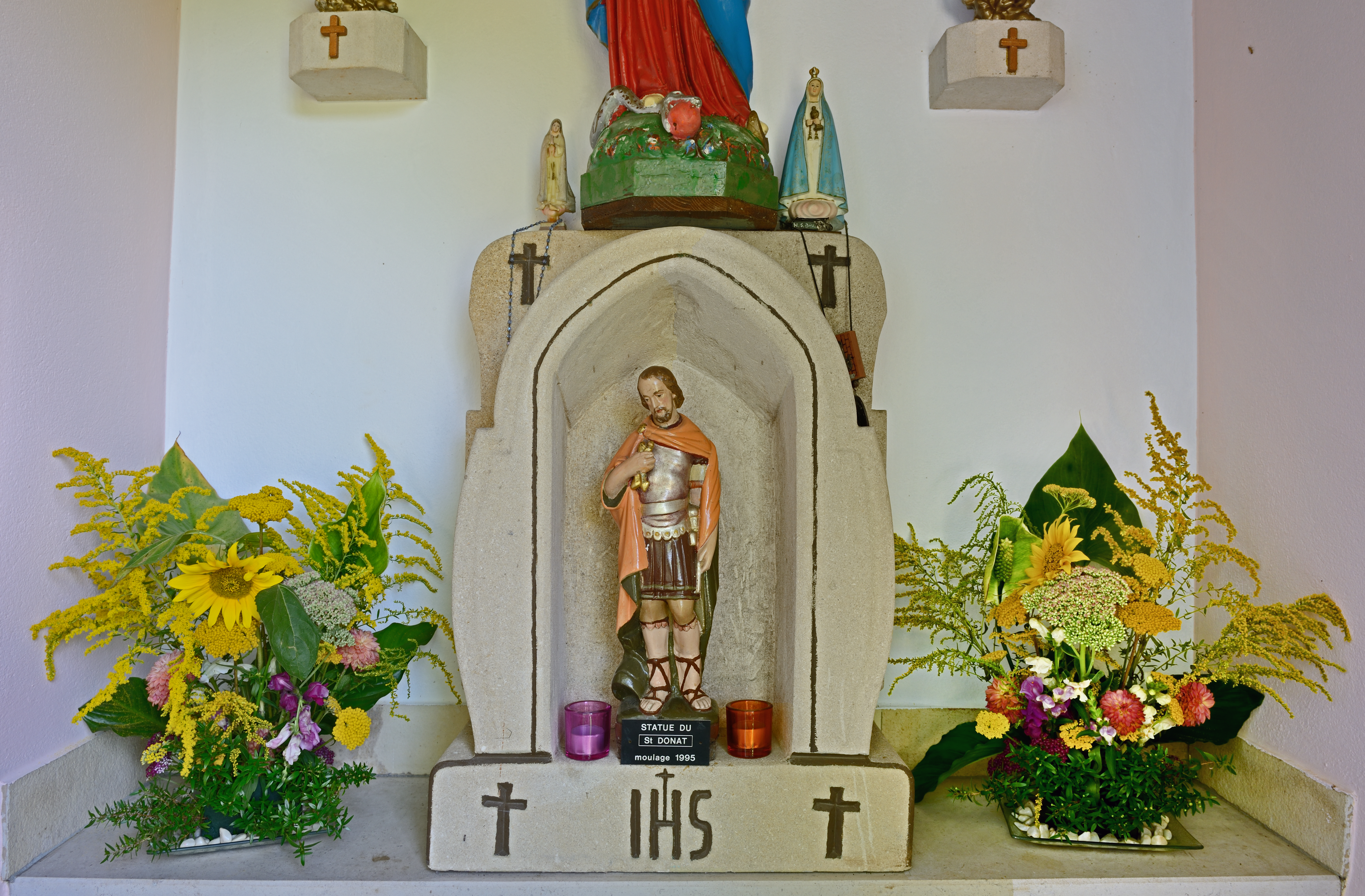 Statue of St Donatus of Muenstereifel in the St Donatus's chapel in Roeser, Luxembourg.